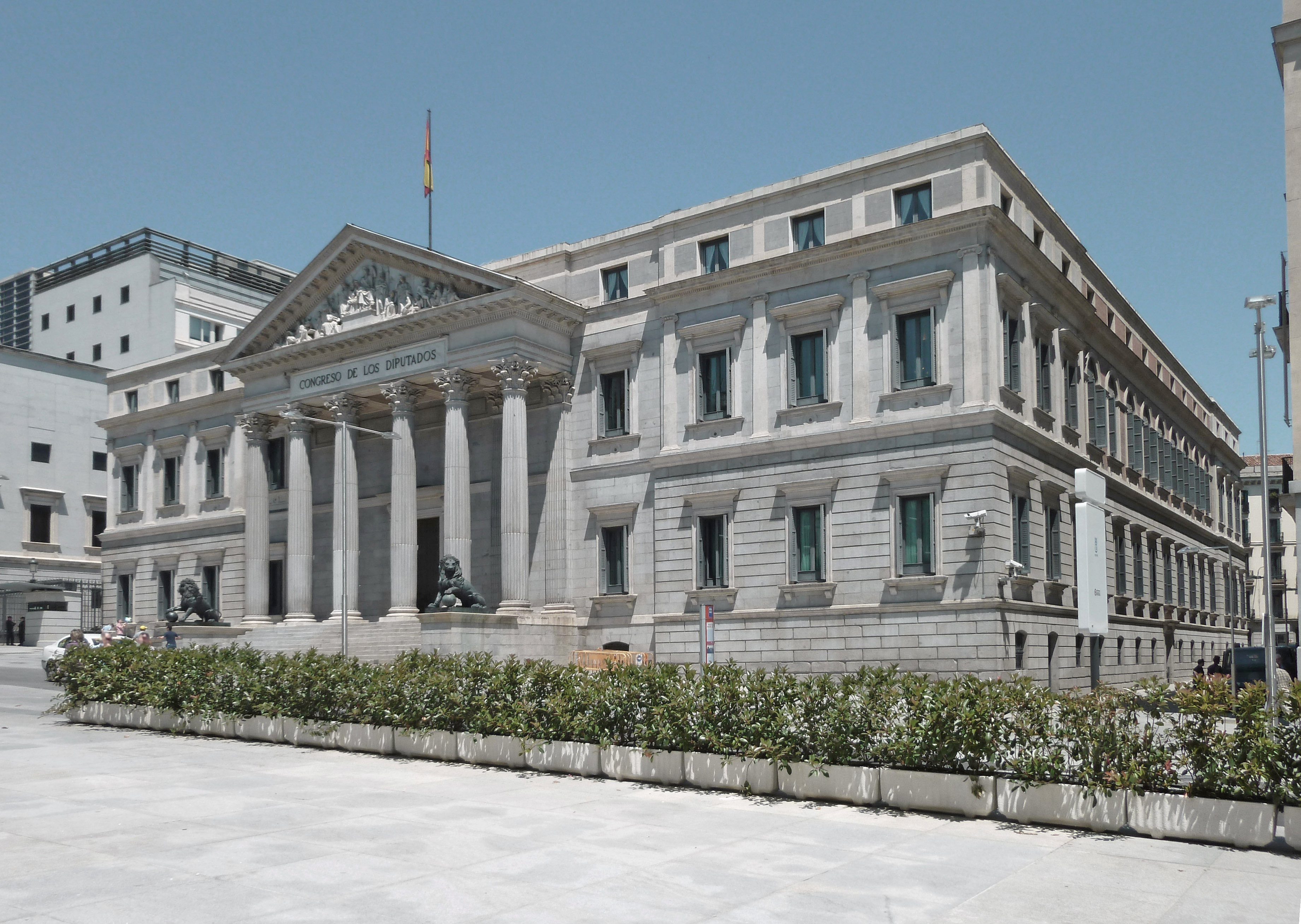 Palacio de las Cortes (Inventory)Native namePalacio de las Cortes de MadridLocationMadrid, Spain.Coordinates40° 25′ 00″ N, 3° 41′ 59″ W Established1843–1850Web page control : Q9054619 VIAF: 173679168 ULAN: 500302409 LCCN: sh2013000847 GND: 4228303-6 BNE: XX189659 WorldCat institution QS:P195,Q9054619